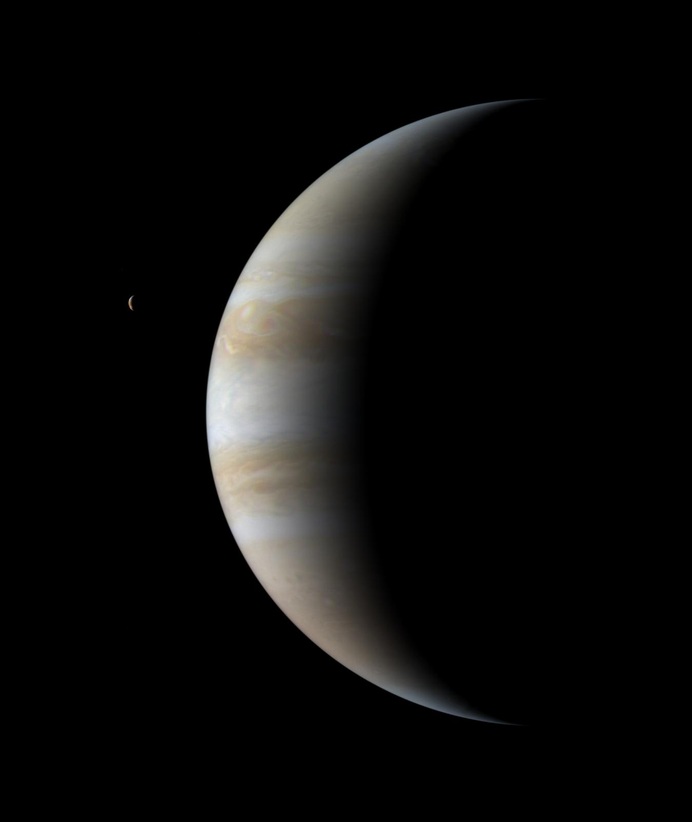 On January 15, 2001, 17 days after it passed its closest approach to Jupiter, NASA's Cassini spacecraft looked back to see the giant planet as a thinning crescent. This image is a color mosaic from that day, shot from a distance of 18.3 million kilometers (11.4 million miles). The smallest visible features are roughly 110 kilometers (70 miles) across. The solar phase angle, the angle from the spacecraft to the planet to the Sun, is 120 degrees. A crescent Io, innermost of Jupiter's four large moons, appears to the left of Jupiter. Cassini collected its last Jupiter images on March 22, 2001, as the spacecraft continued the final leg of its journey to a July 1, 2004, appointment with Saturn. Cassini is a cooperative project of NASA, the European Space Agency and the Italian Space Agency. The Jet Propulsion Laboratory, a division of the California Institute of Technology in Pasadena, Calif., manages Cassini for NASA's Office of Space Science, Washington, D.C.